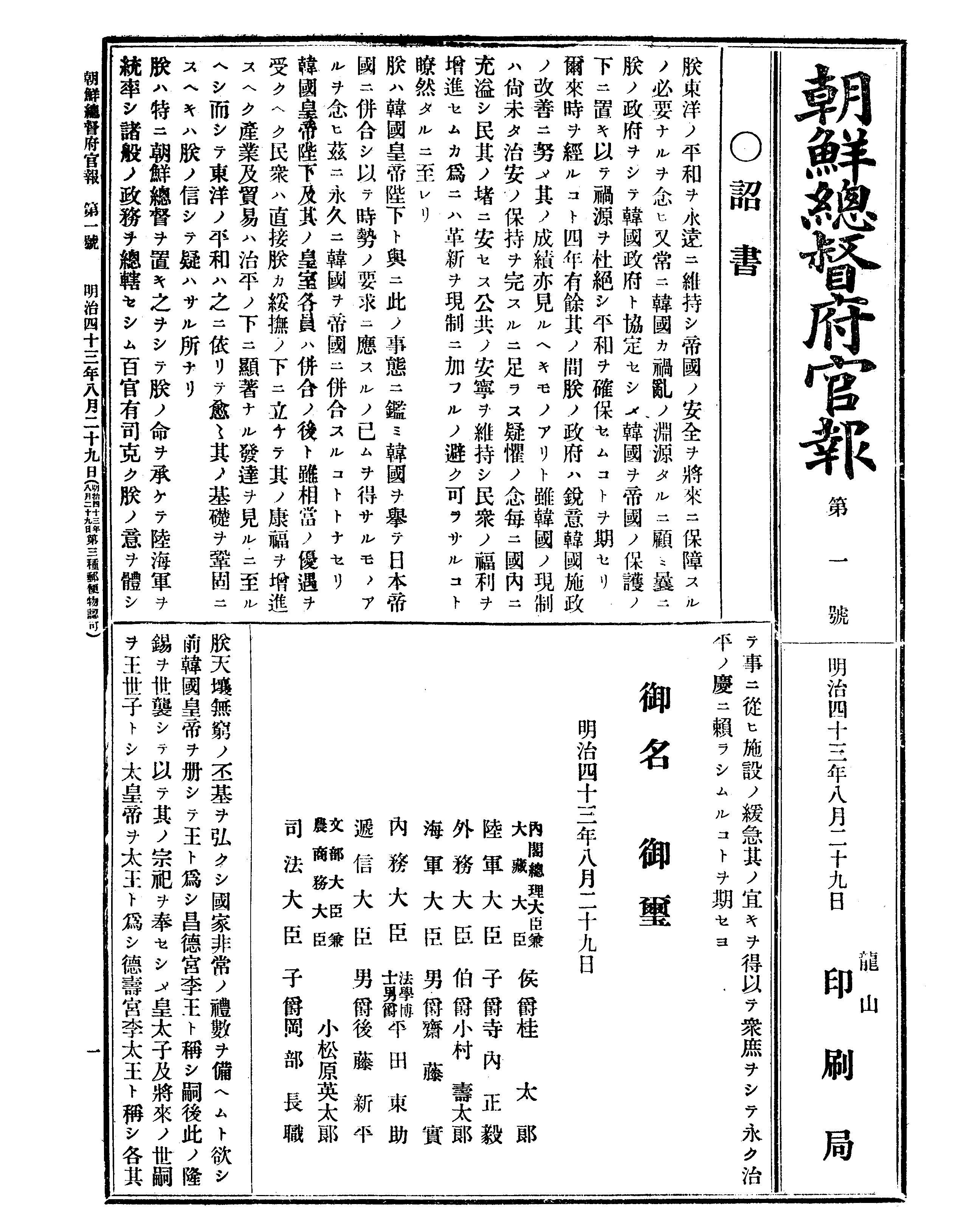 This is the first page of the first issue of the Gazette of Government-General of Korea, published on August 29, 1910. The Government-General of Korea was a part of Japanese government that ruled Korea between 1910 and 1945.